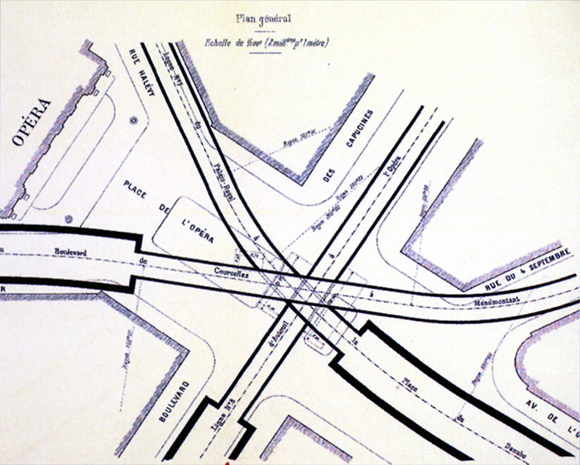 Engineering map of the crossing of Paris Metro line 3,7 and 8 at the place de l'Opéra, Paris, France.